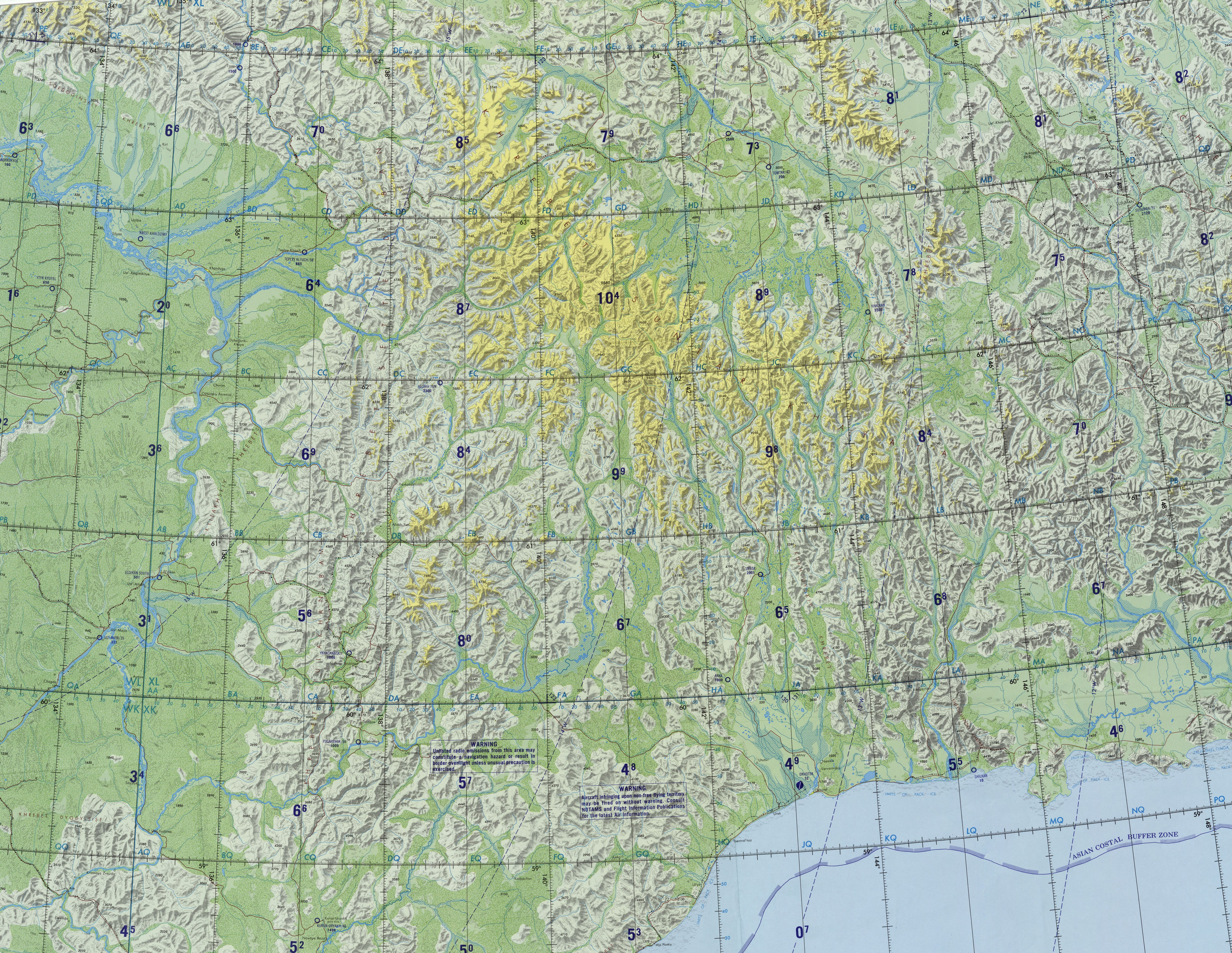 Map section showing the Sette-Daban & Suntar-Khayata mountain ranges. Siberia, Russia